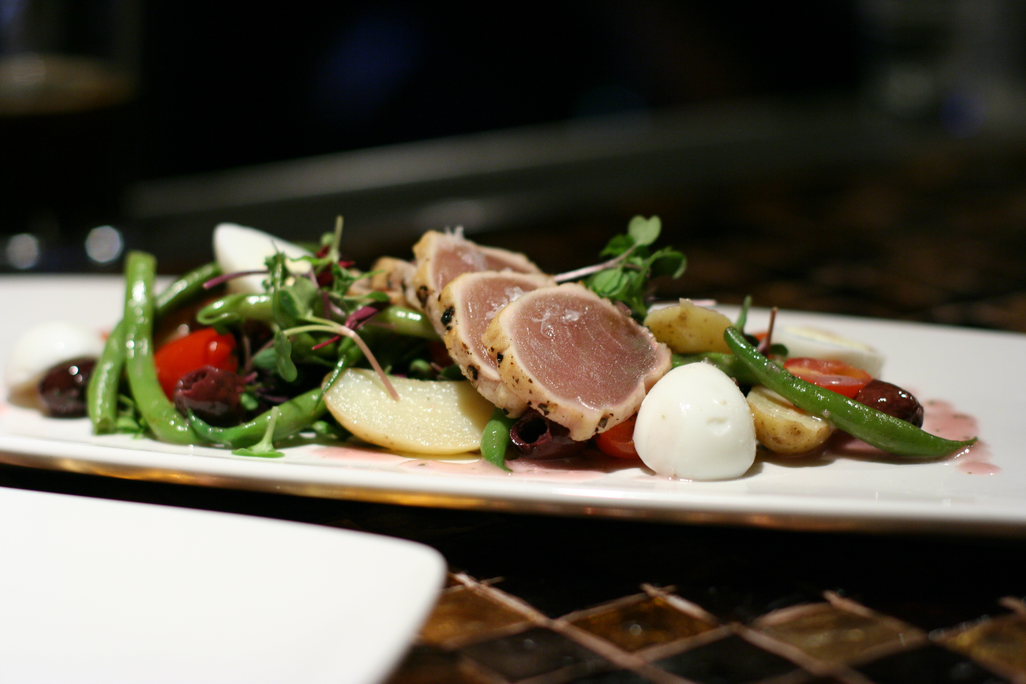 from r.tl regional tasting lounge in Vancouver, BC, Canada. 1130 Mainland Street, Vancouver, BC, Canada, phone 604.638.1550 fresh micro greens, quail eggs, haricot vert niçoise olives, fingerling potato, seared albacore tuna